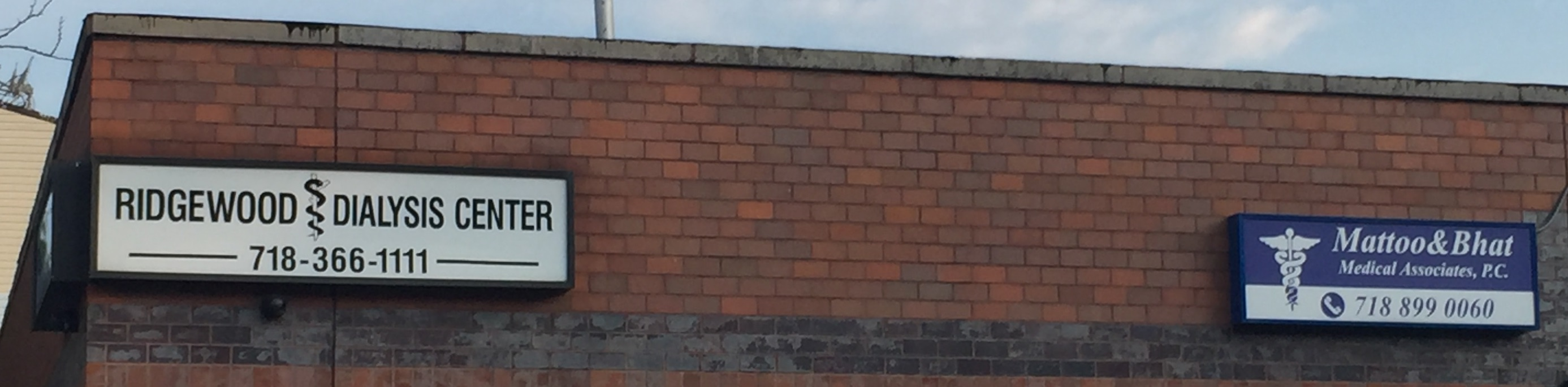 Examples of the Caduceus and the Rod of Asclepius as used in signage for two neighboring medical establishments (Queens, NY).